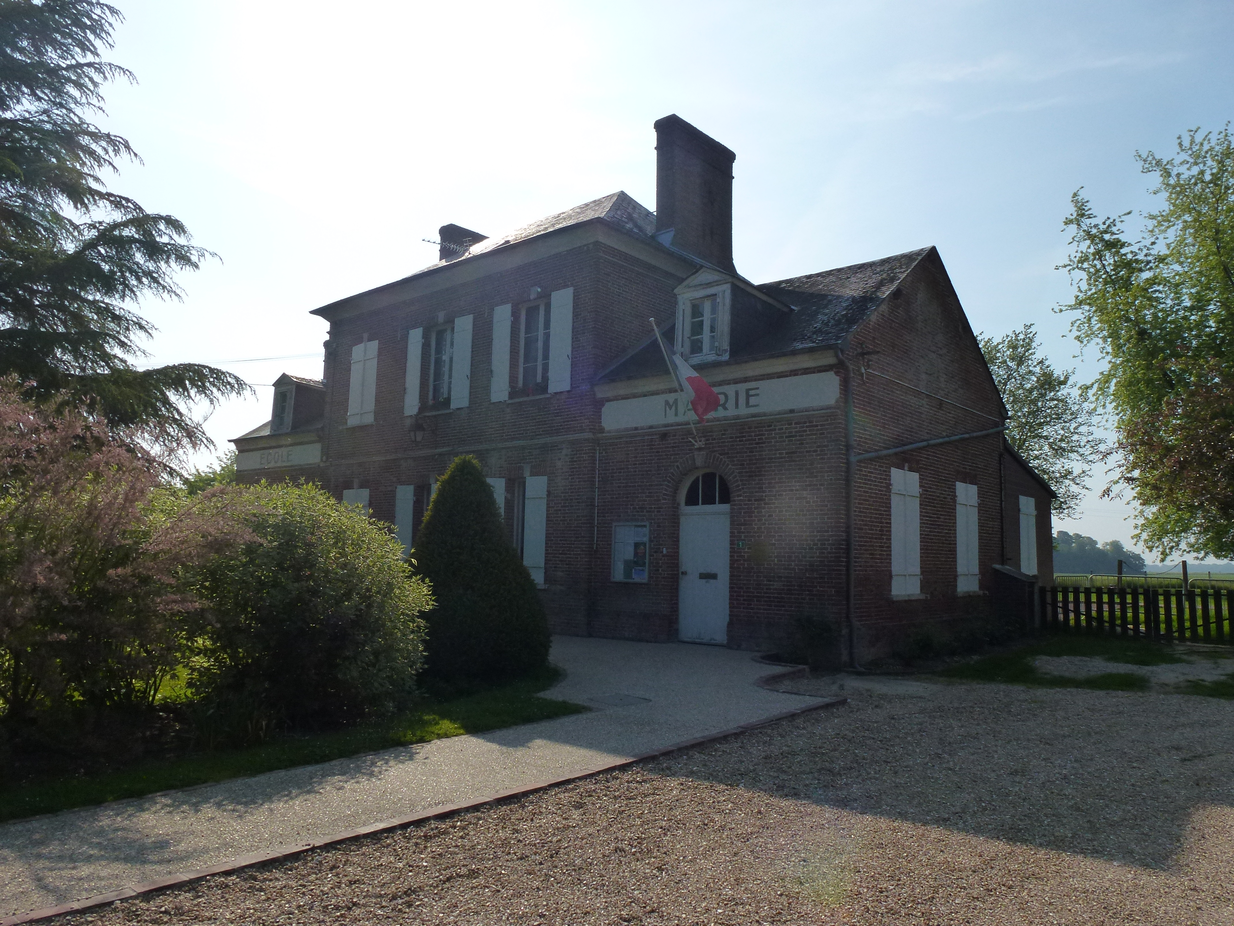 Graveron-Sémerville (Eure, Fr) mairie